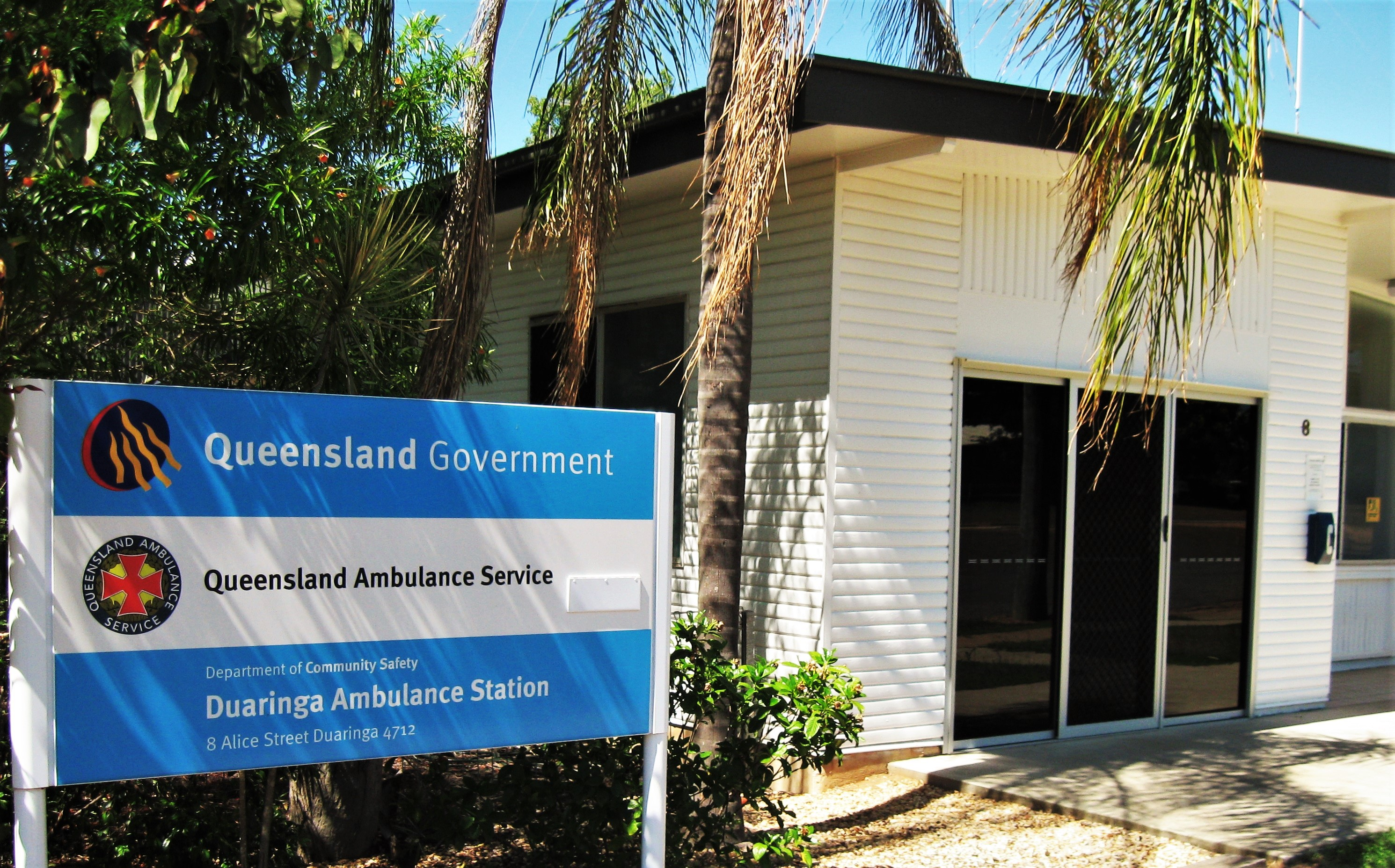 The ambulance station in Duaringa, Queensland